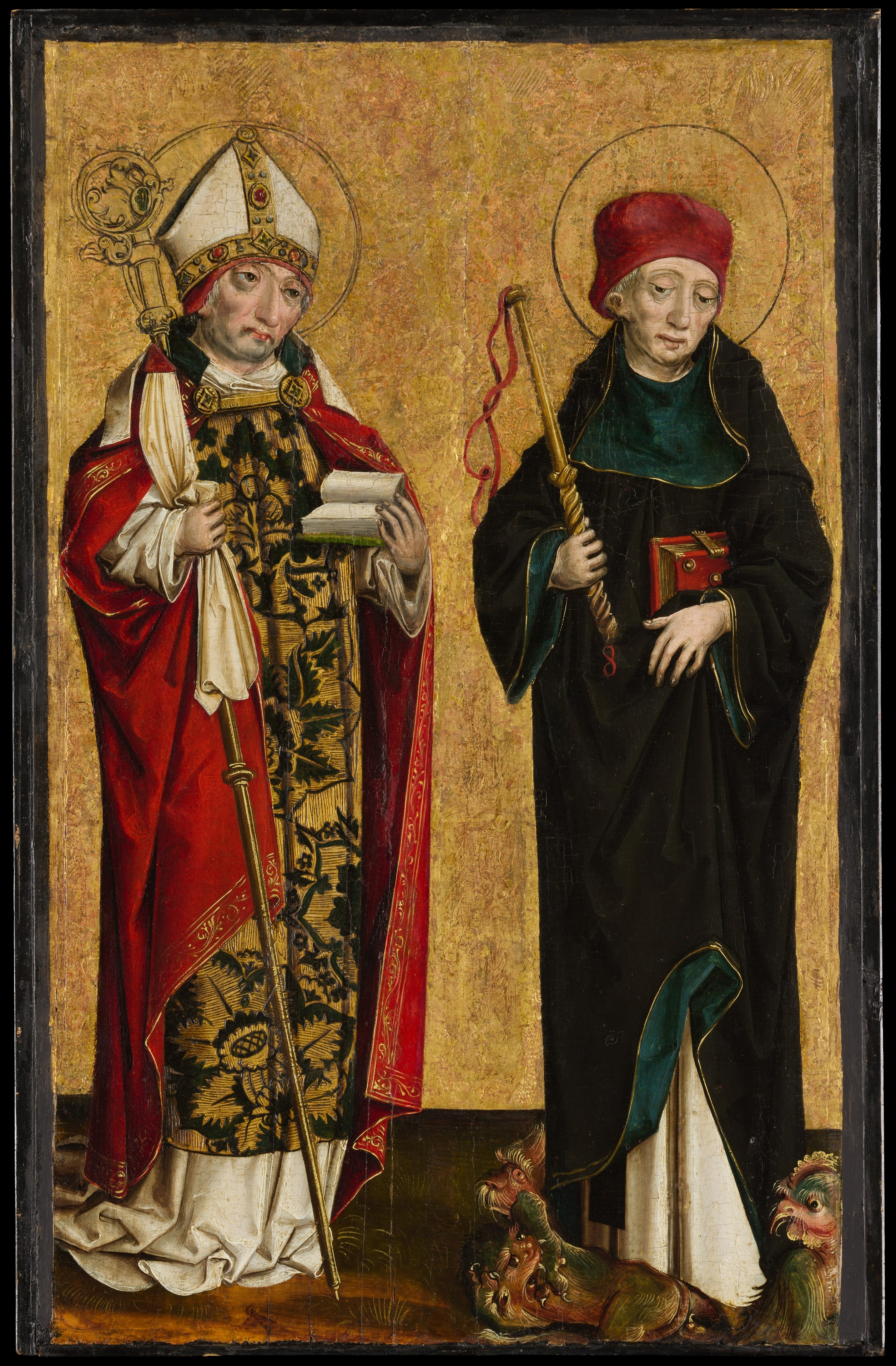 Painting, part of an altarpiece; Paintings